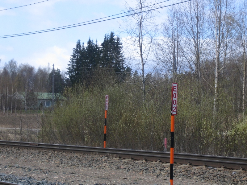 Railway signals at Huutokoski station in Joroinen, Finland